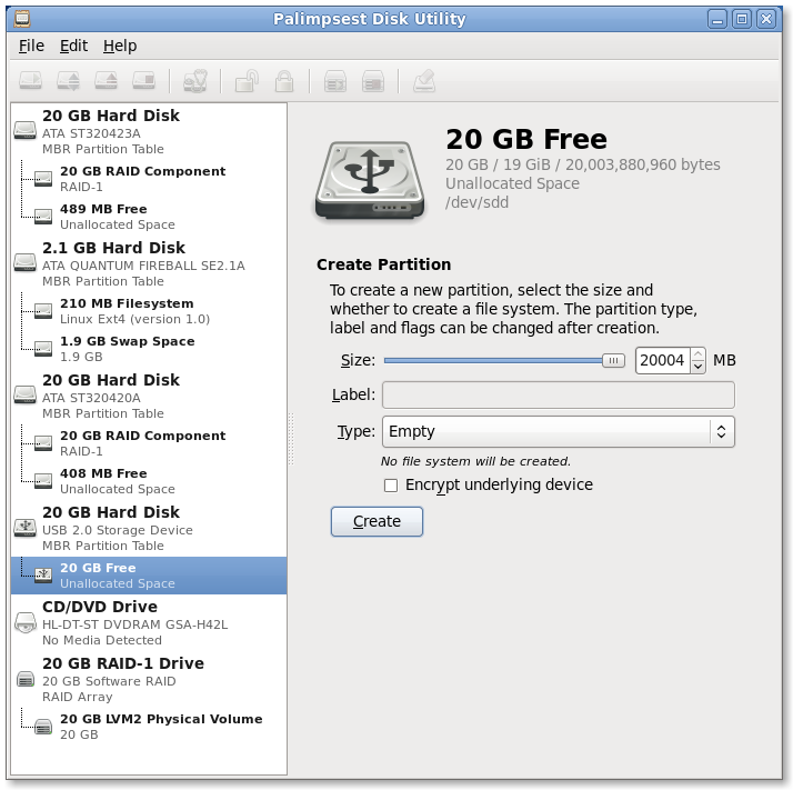 RAID-1_component_swapping_on_Fedora-12_Screenshot03